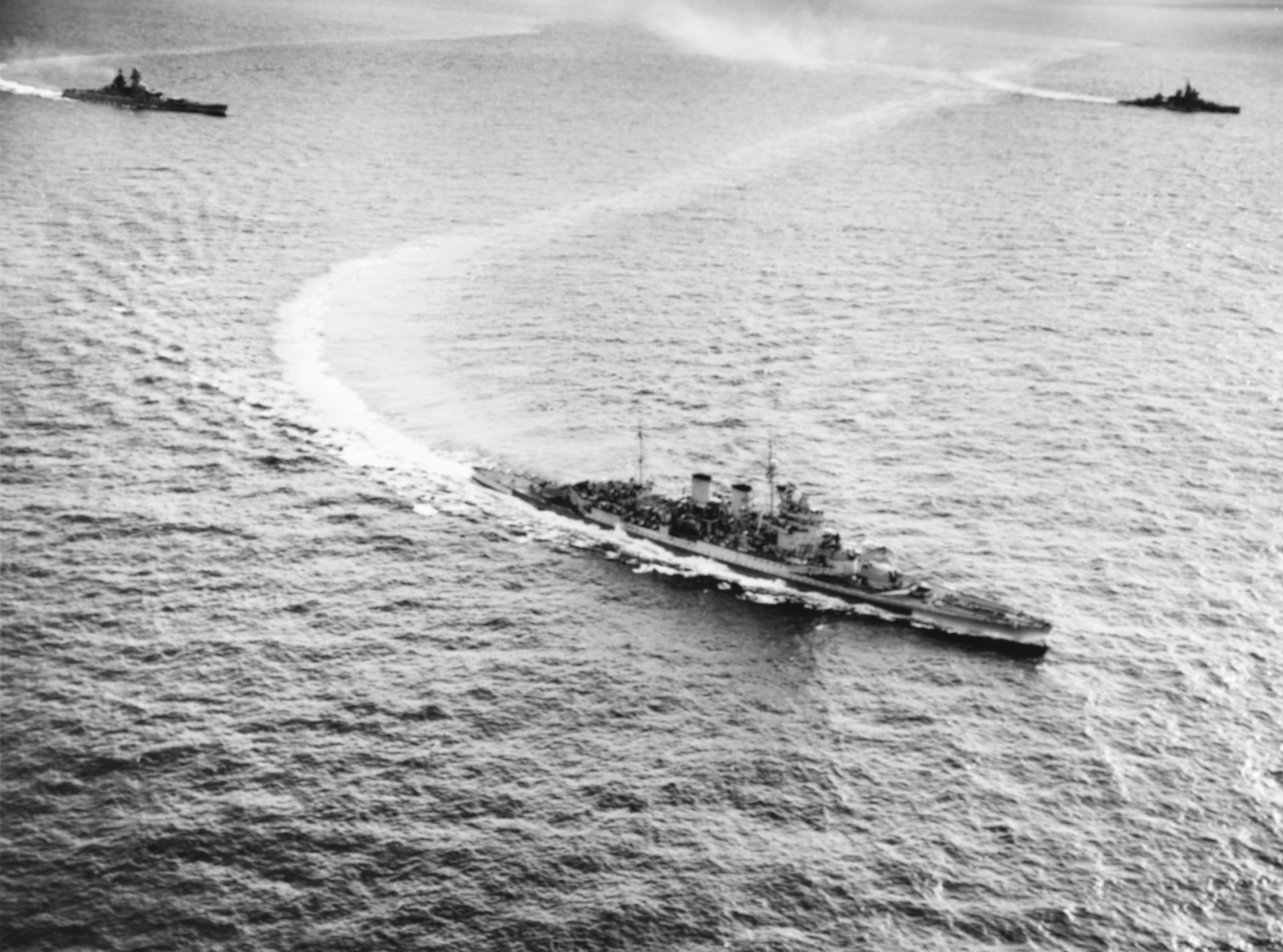 The British battlecruiser HMS Renown operating with other capital ships of the British Eastern Fleet in the Indian Ocean area, 12 May 1944. The battleship HMS Valiant is in the right distance. The French battleship Richelieu is in the left background.